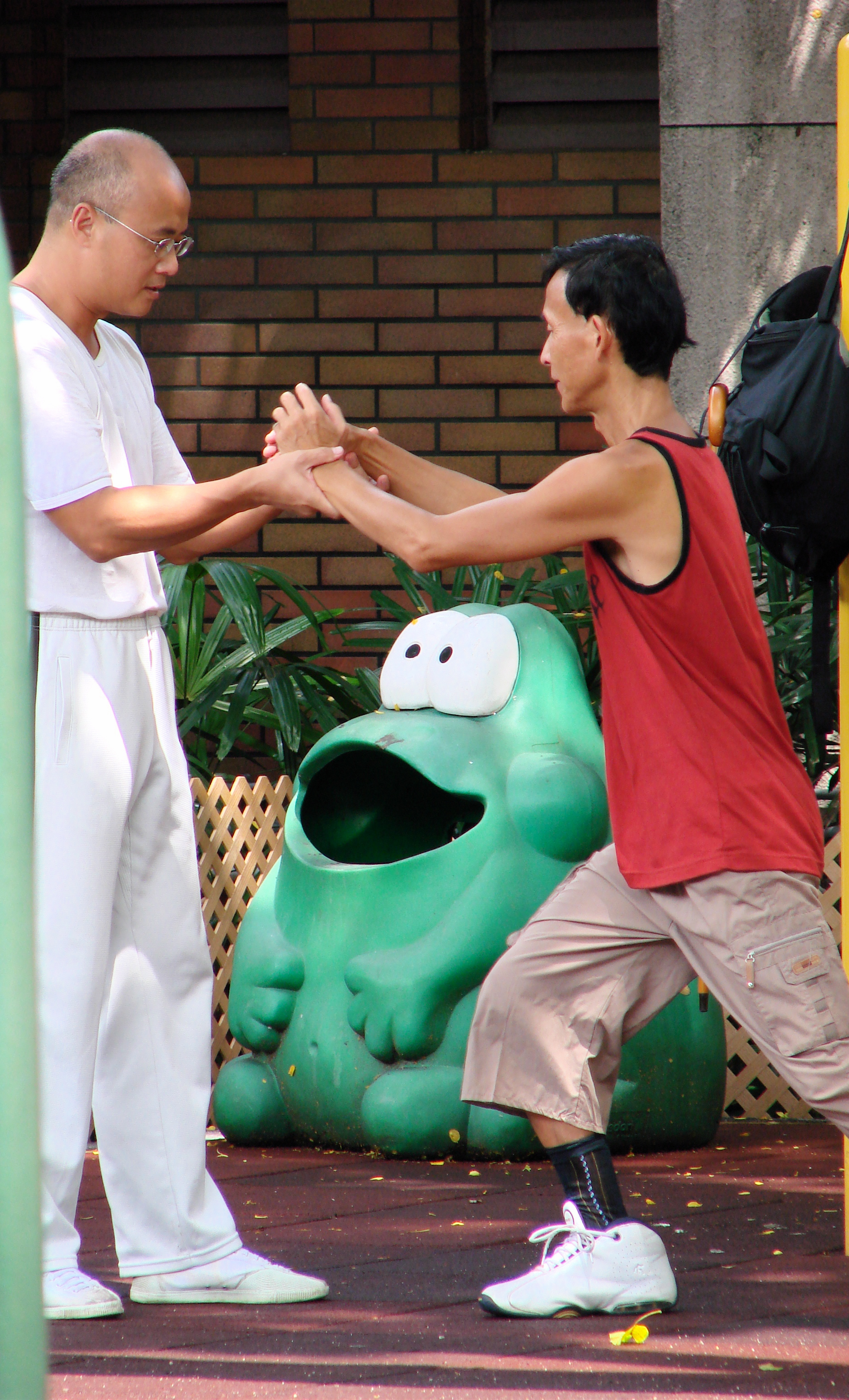 A tai chi chuan teacher corrects his student's form. The student is holding the An or Push posture of the Grasp Sparrow's Tail sequence of the Yang style.